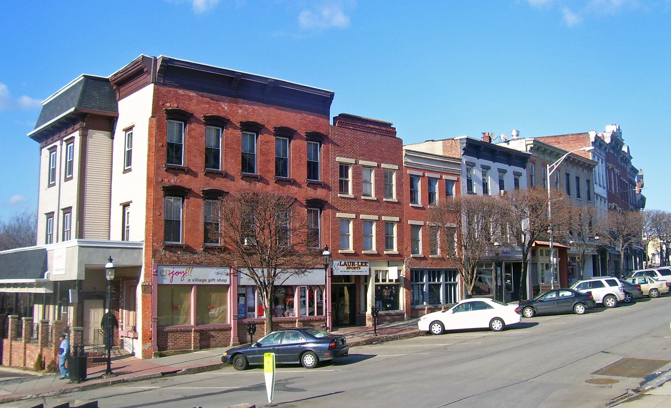 Commercial buildings on Main Street, Ossining, NY, USA, contributing properties to the Downtown Ossining, Historic district. The Old Croton Aqueduct route is in the foreground.